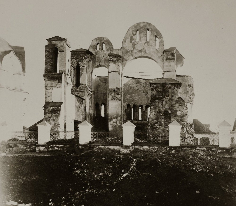 Medieval church in Ovruch before Schusev's rebuilding campaign